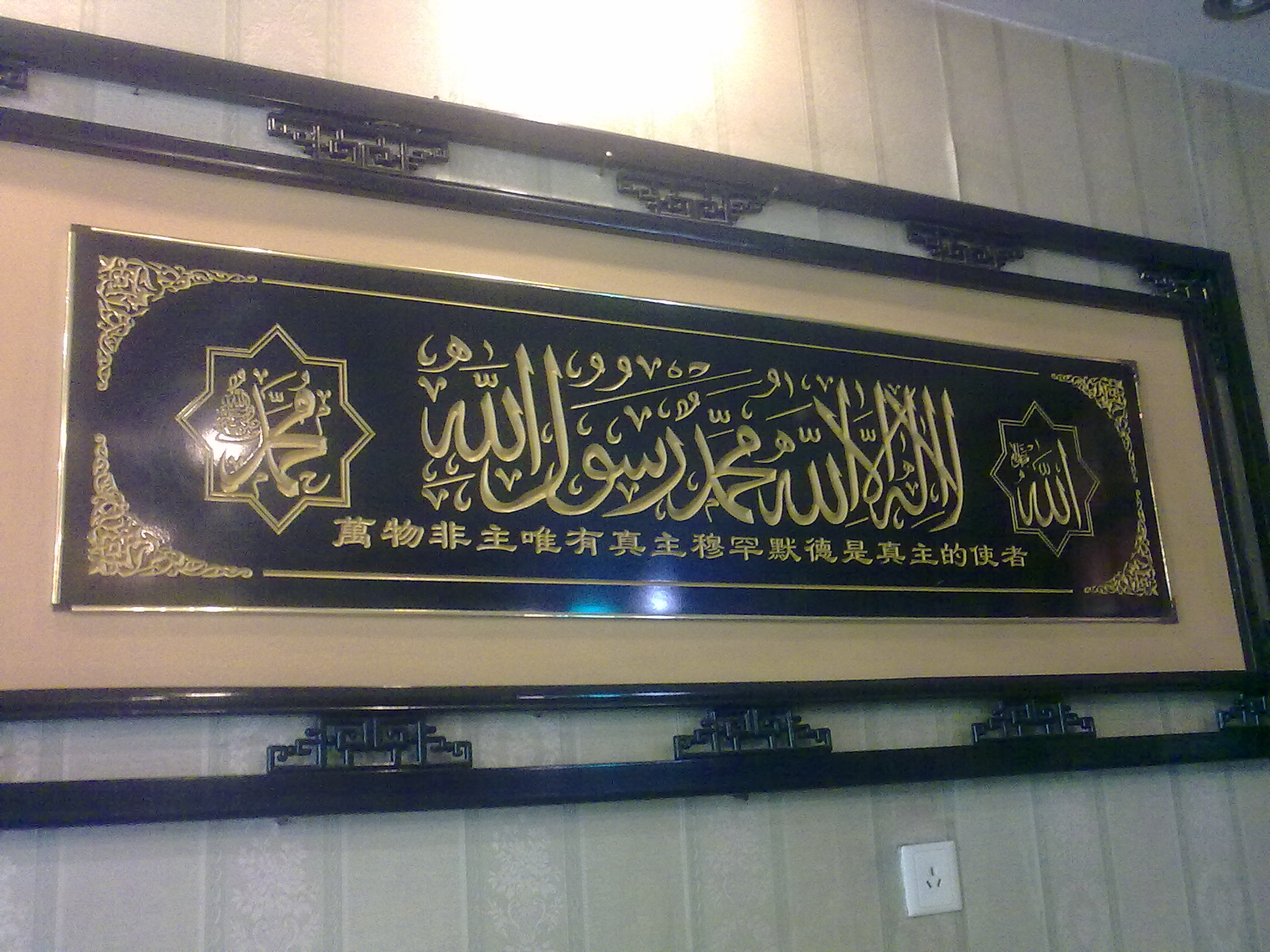 A Islamic calligraphy of Shahada, Beijing Salahuar restaurant.